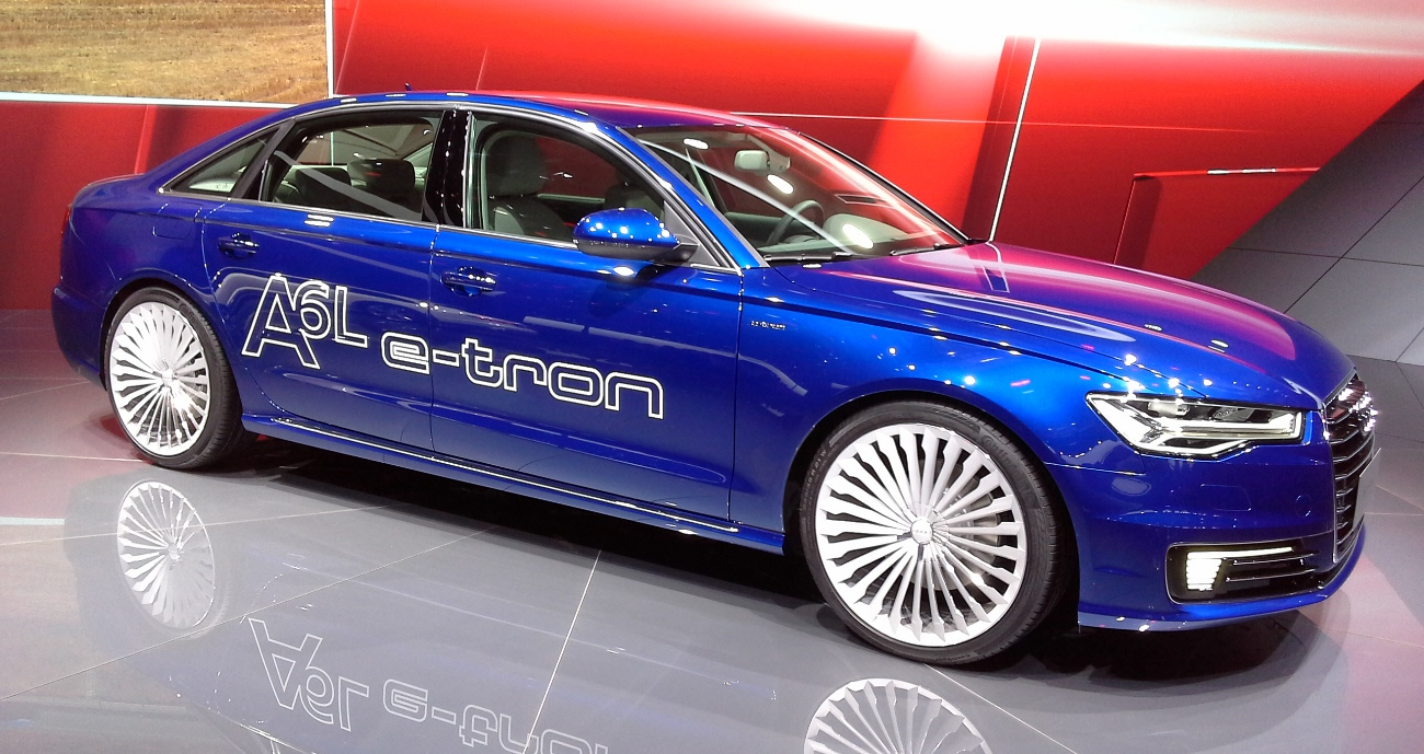 Audi A6L C7 e-tron photographed at the Auto Shanghai 2015, Shanghai, China.